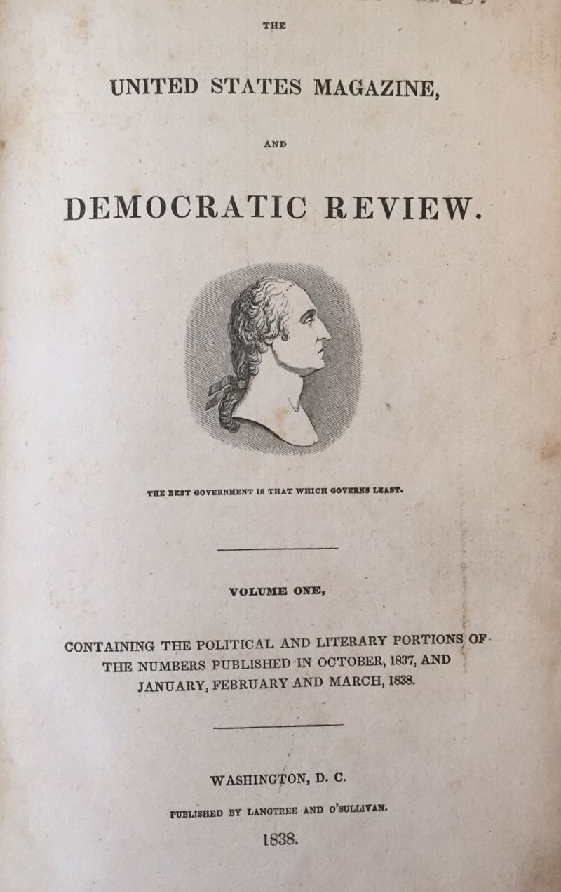 Title page of The United States Magazine and Democratic Review, Volume one, 1838, containing the political and literary portions of the numbers published in October 1837, and January, February and March, 1838. Washington D.C. Published by Langtree and O'Sullivan Motto: "The best government is that which governs least"